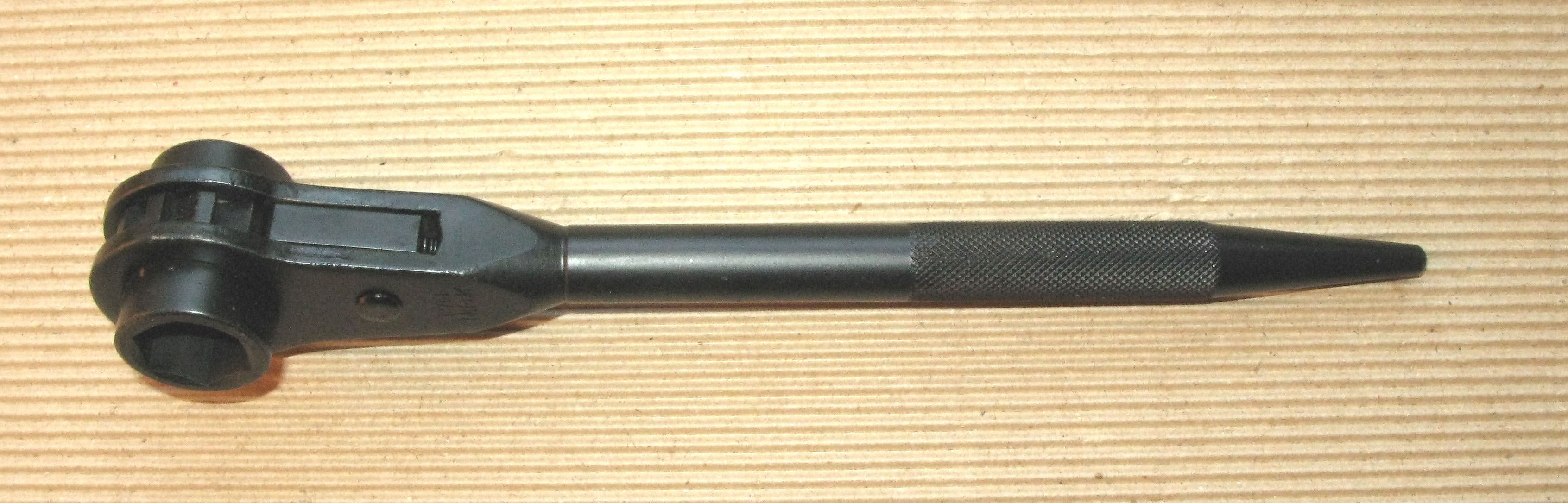 Ratchet wrench with single nail. NGK brand made in japan.